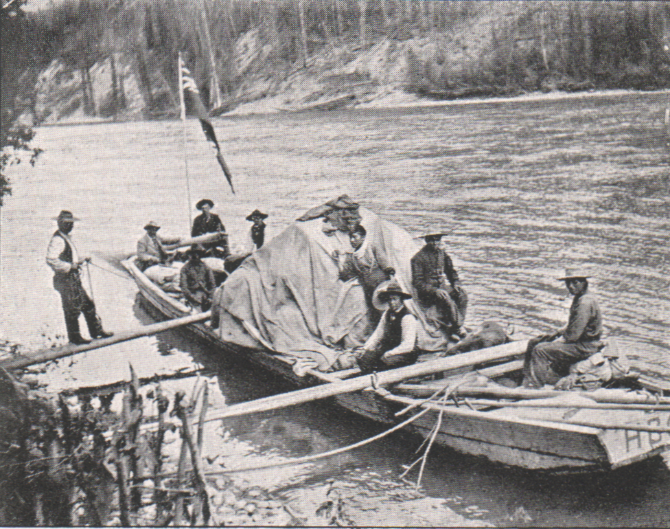 Emil Brass (German fur trader, consul, *1856; +1938): Aus dem Reiche der Pelze (From the Empire of Furs). Publisher: Neue Pelzwaren-Zeitung, Berlin 1911. 709 pages, cloth cover. 17,5 x 26 cm.